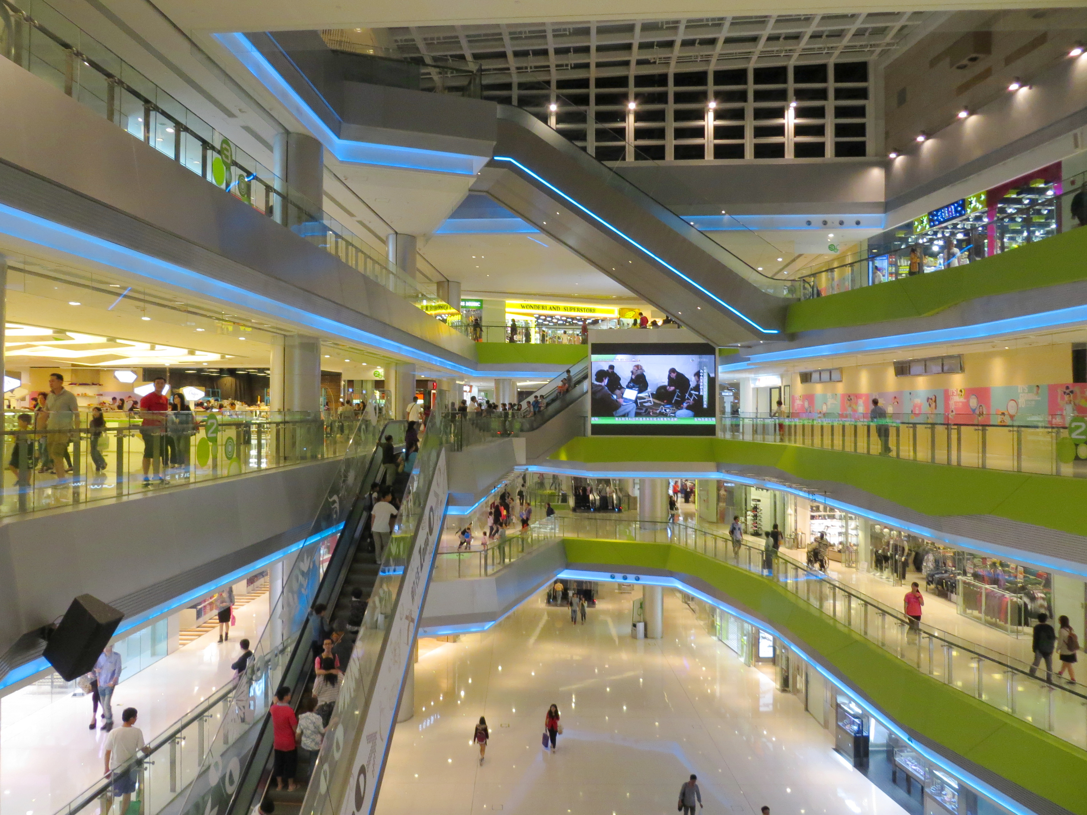 Atrium, Domain, Yau Tong, Kowloon, Hong Kong.